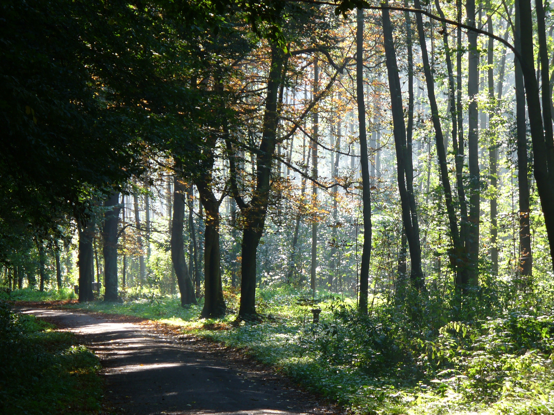 Grzybowska Valley